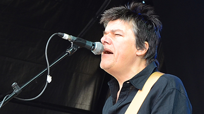 Doctor Robert (Robert Howard). Lead singer of English band, The Blow Monkeys. Taken at Let's Rock Bristol, UK in June 2014.